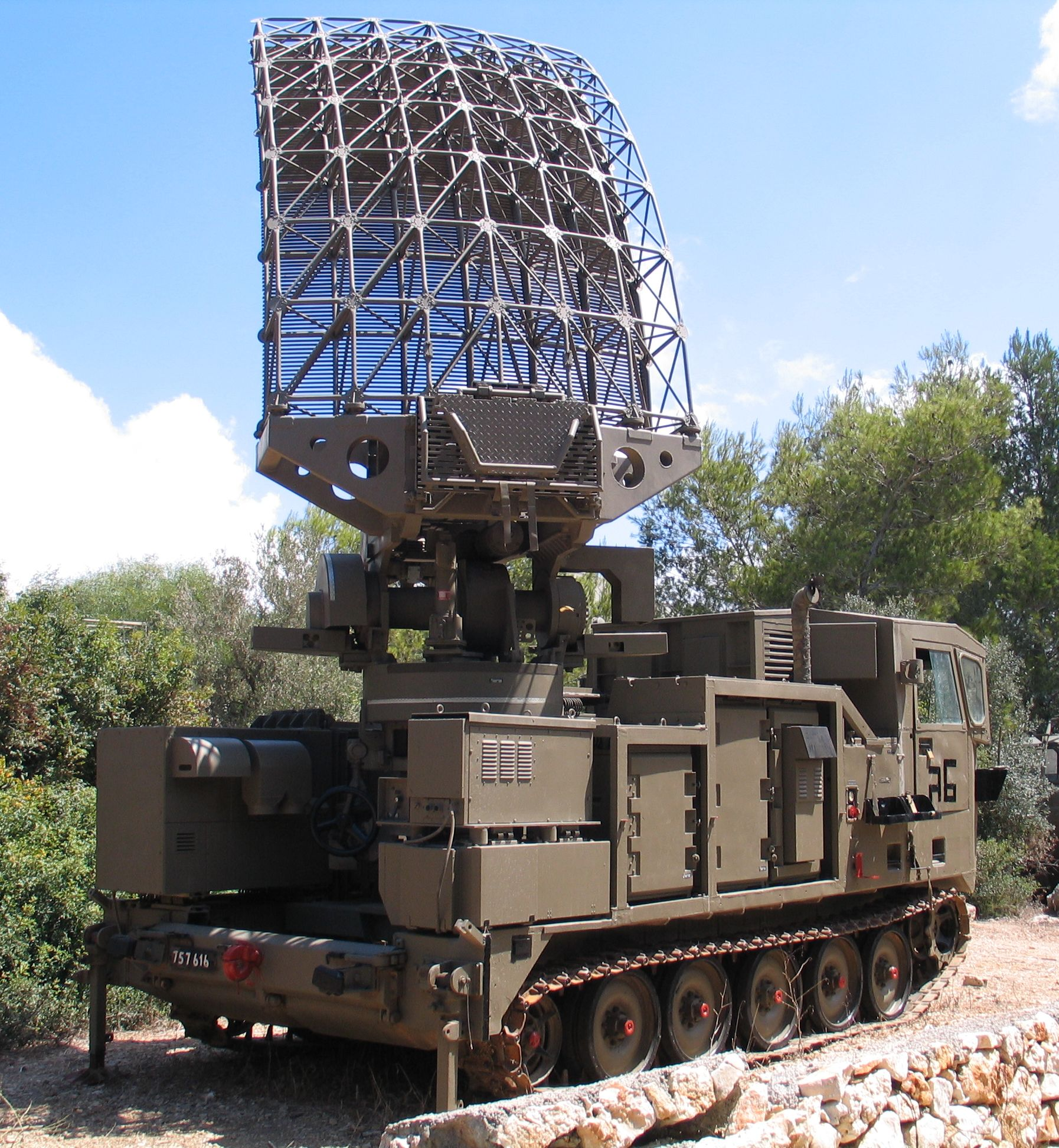 Israeli Shilem artillery forces radar in Beyt ha-Totchan, Zichron Yaakov, Israel.